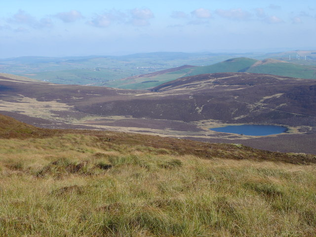 Open/Cultivated Country The summit of Brottos, from where this view is taken, demonstrates the difference between upland and lowland country. And isn't Llyn Hesgyn blue?